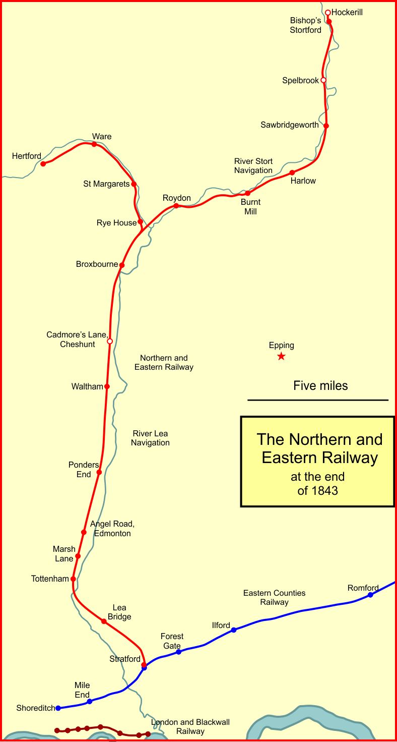 System map of the Northern and Eastern Railway network, England, in 1843 at the end of its independent existence